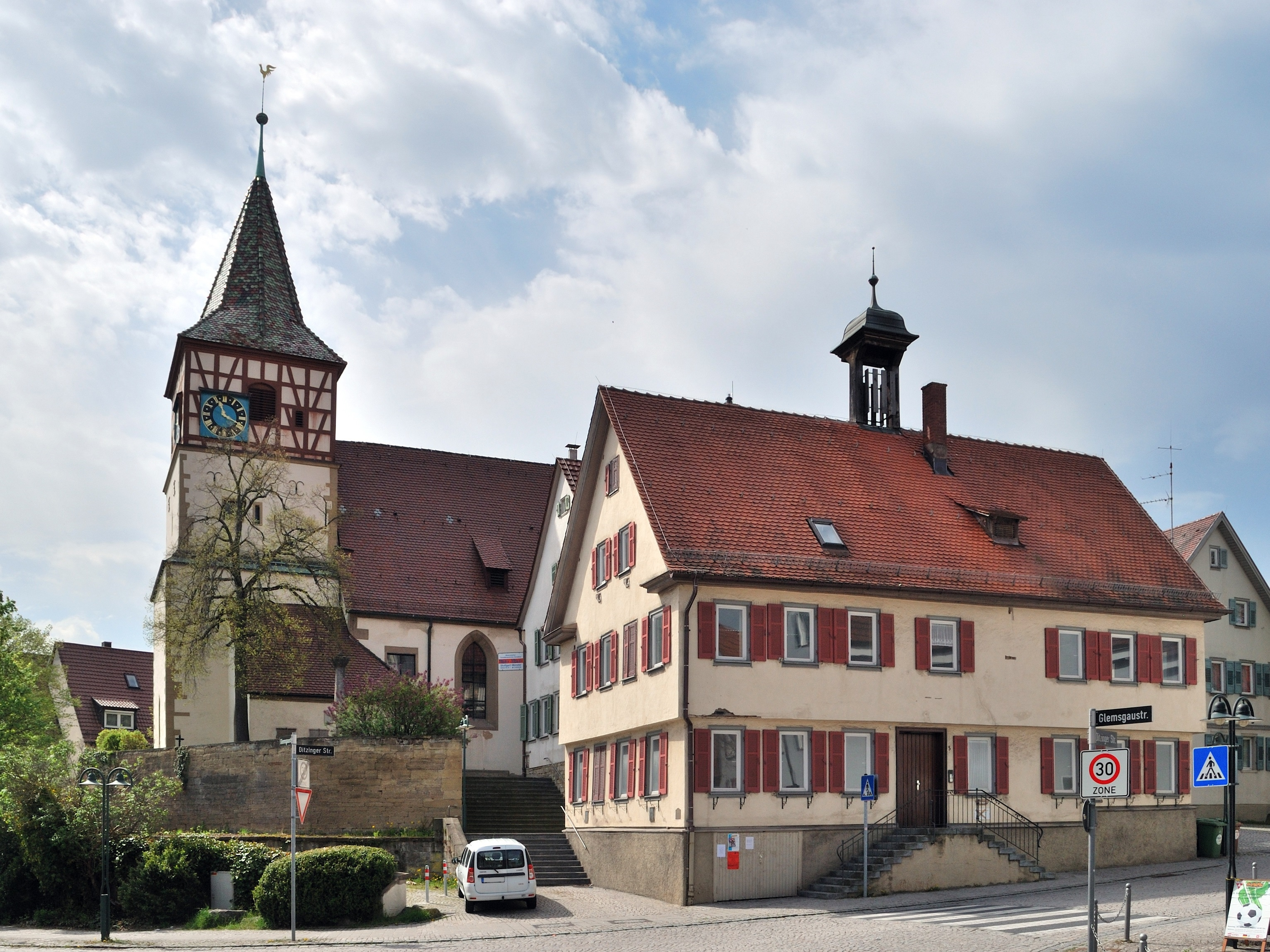 The protestant Oswald-Church in Stuttgart-Weilimdorf, a district of Stuttgart in the German Federal State Baden-Württemberg. On the right side is the Old City Hall of Weilimdorf.